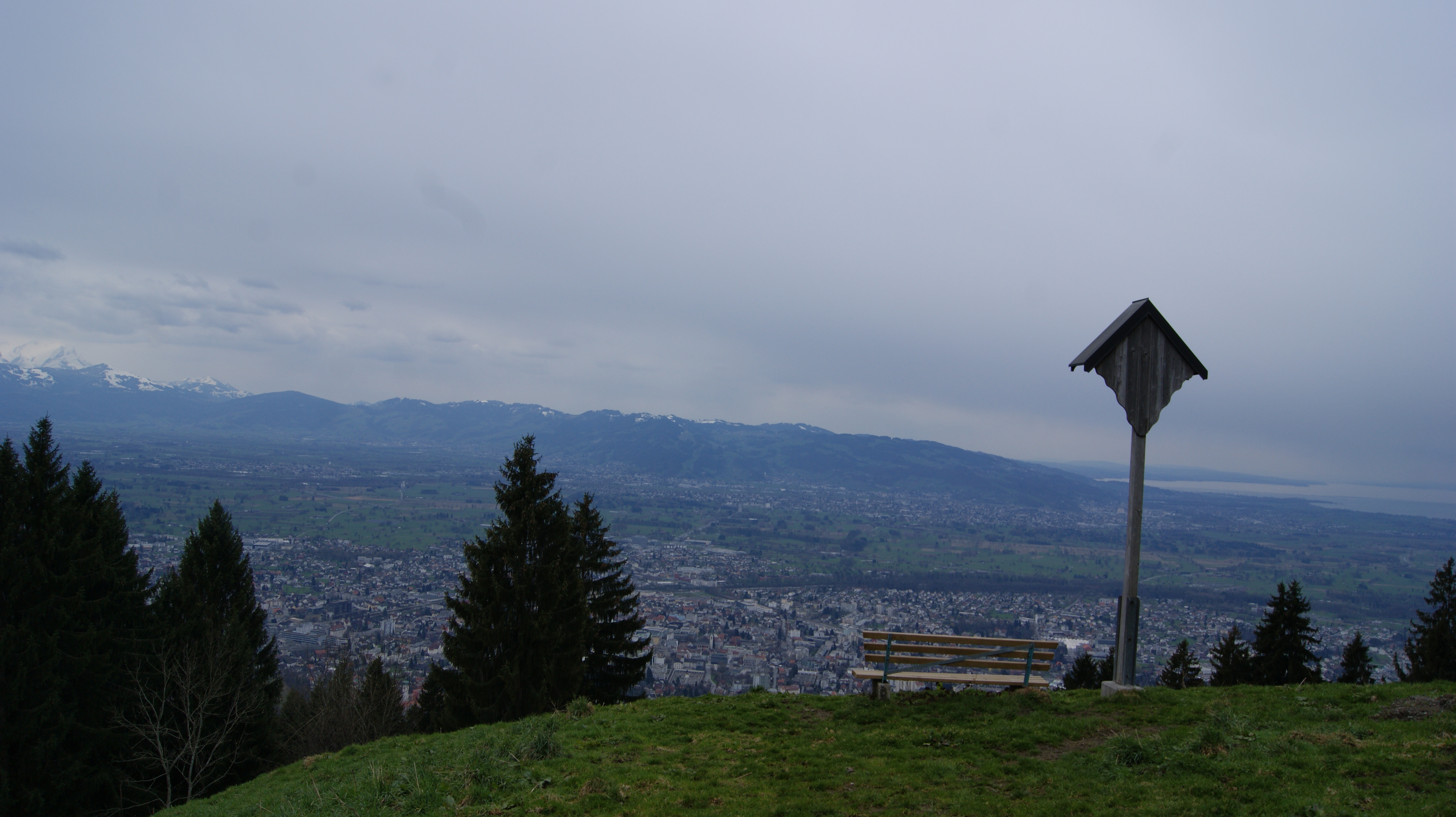 View from the Alpe Schwende in Dornbirn, Vorarlberg, Austria in the Alpine Rhine Valley, Lake Constance right.